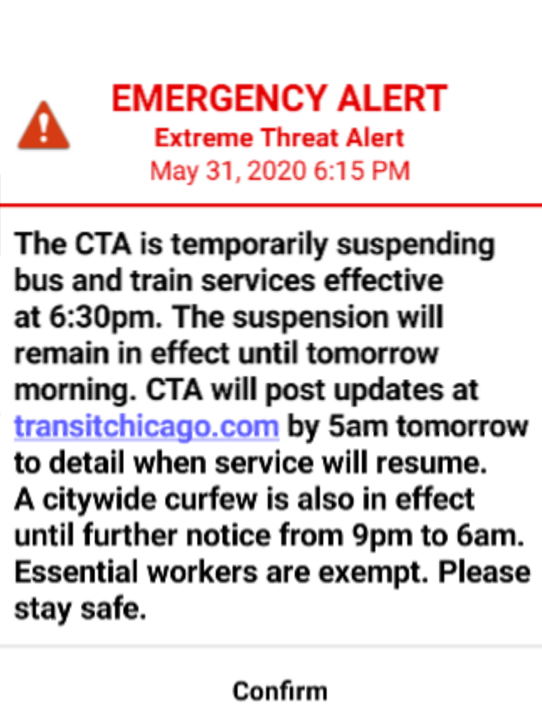 Warning sent to smartphones around 6:15 pm CDT on May 31, 2020 regarding a temporary suspension of CTA services. All cell phones within Chicago city limits received this emergency message.